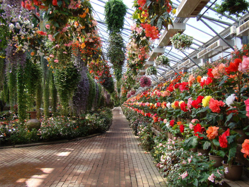 Fujikachouen Shizuoka Japan